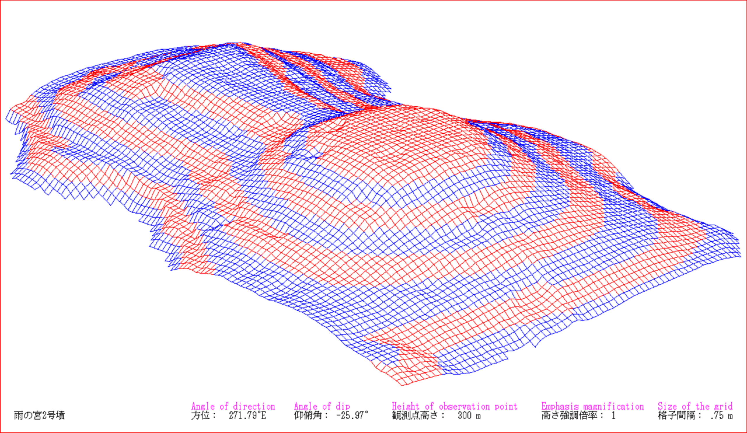 I who am a contributor drew the picture by a software which developed by myself. The survey map which I referred to depends on "『雨の宮古墳群 環境整備事業に係る第一次発掘調査概報』鹿西町教育委員会（1993年）". This is a drawing of present situation (not a drawing of a restored mound). The drawing depends on combination of wire frame and height eight phases classification. Perspective projection.